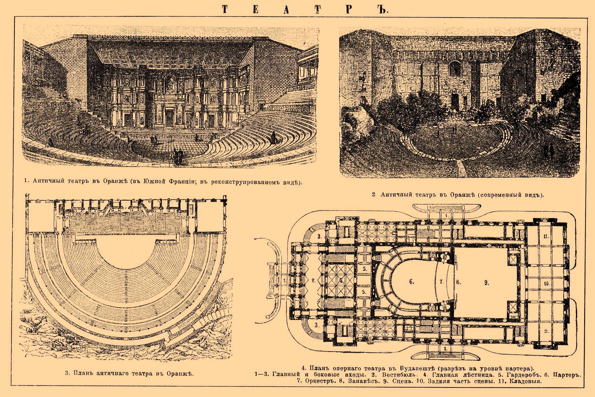 Illustration from Brockhaus and Efron Encyclopedic Dictionary(1890—1907)